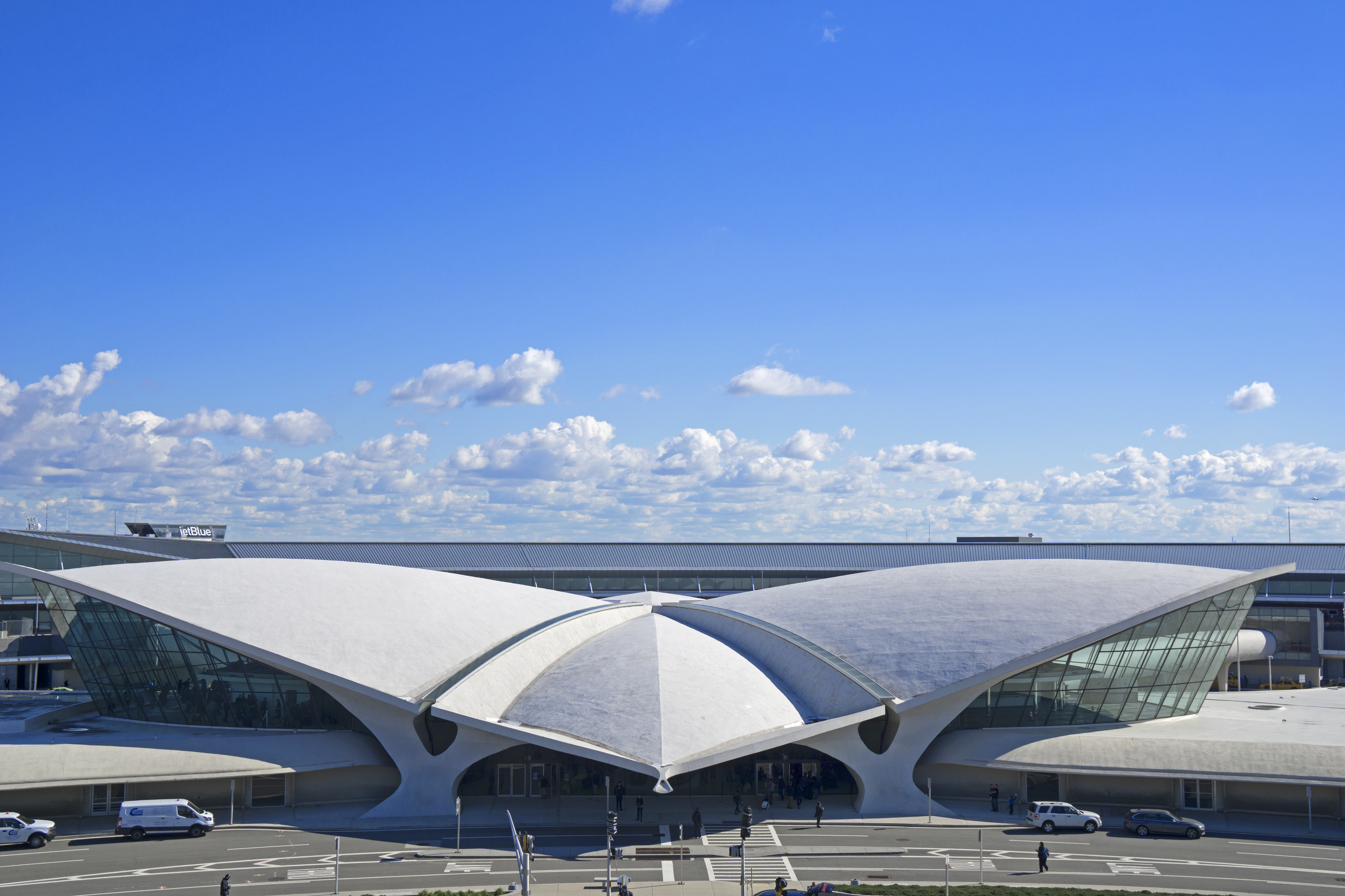 Exterior front. TWA Flight Center. JFK Int'l AirportSite: TWA Flight Center